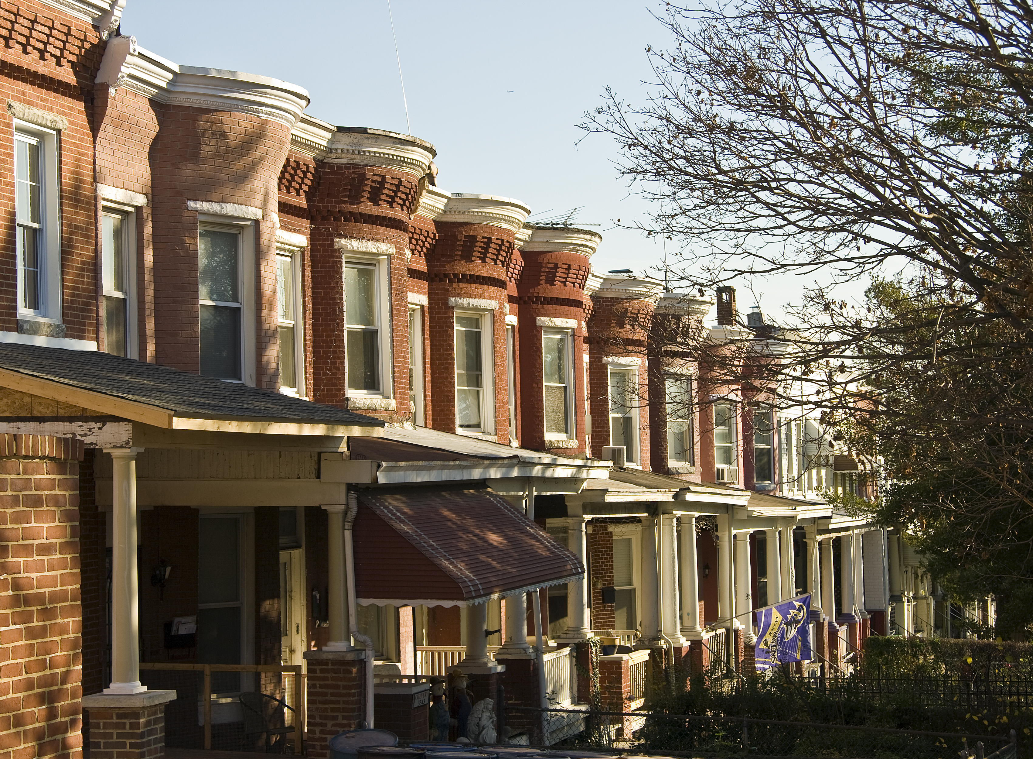 Rowhouses on Roland Avenue south of 36th St. in Hampden, Baltimore, Maryland, USA